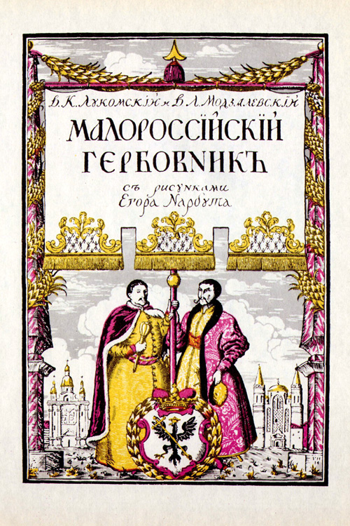 The cover of The Armorial of Little Russia